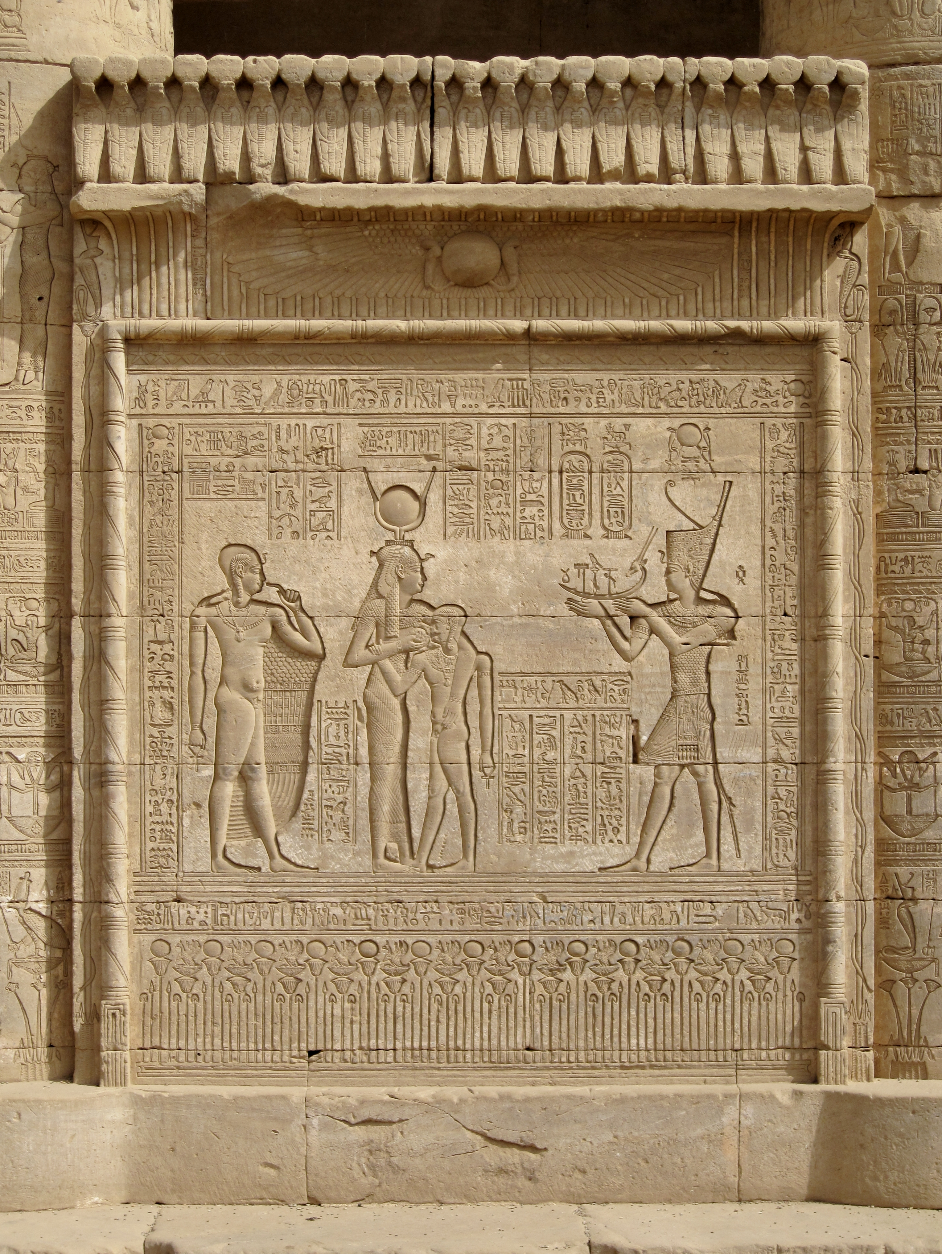 Relief of Traianus on the side of the mamisi of the Dendara temple, Egypt. Hathor suckling her son Ihy.